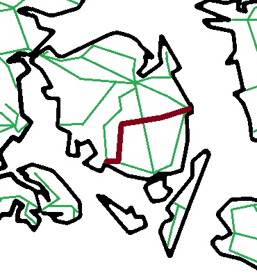 Map of railways on Funen in Denmark with the state owned but then private driven railway Nyborg-Ringe-Faaborg Banen in brown.